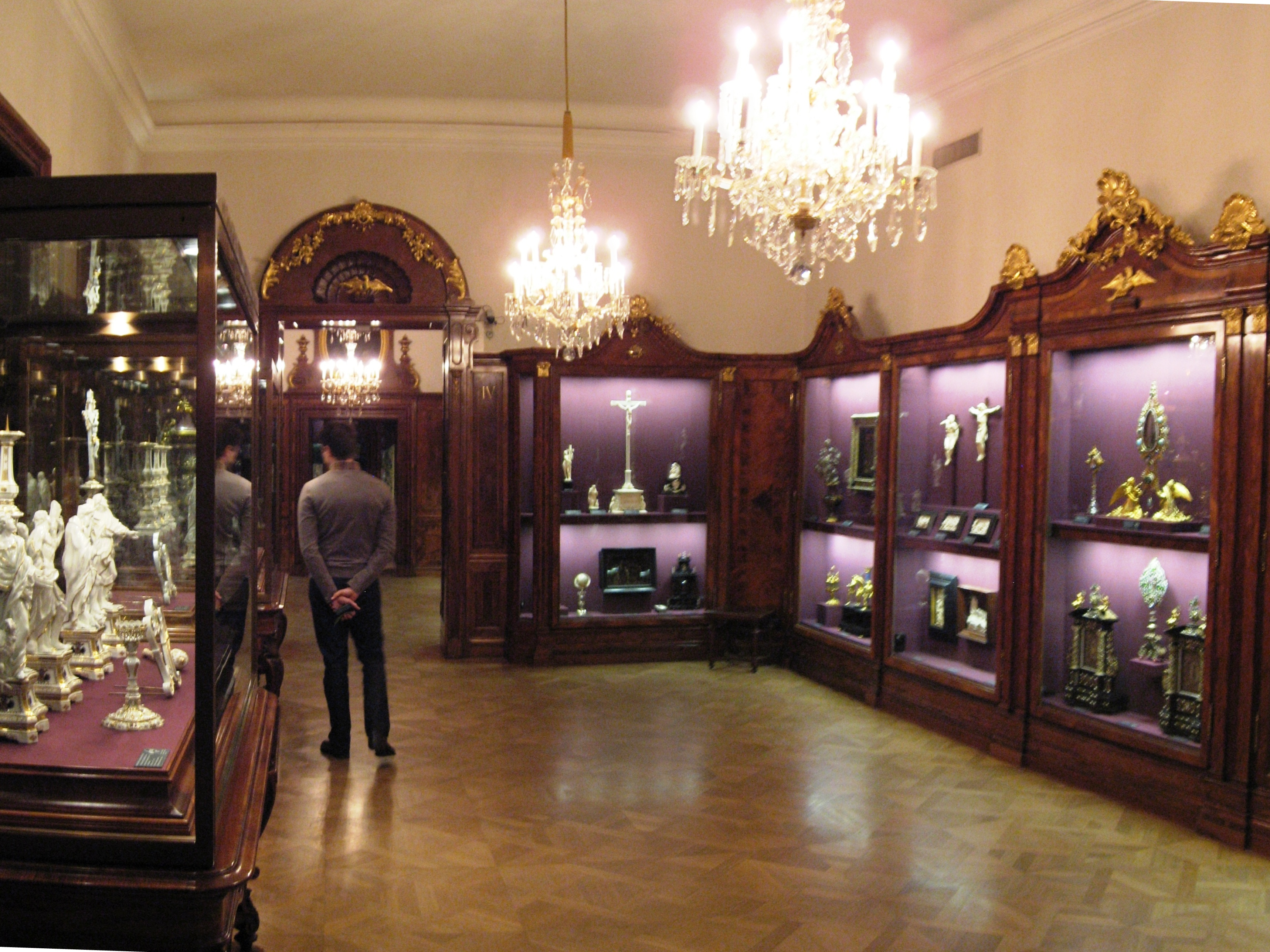 The Ecclesiastical Treasury (Geistliche Schatzkammer) in the Hofburg in Vienna.